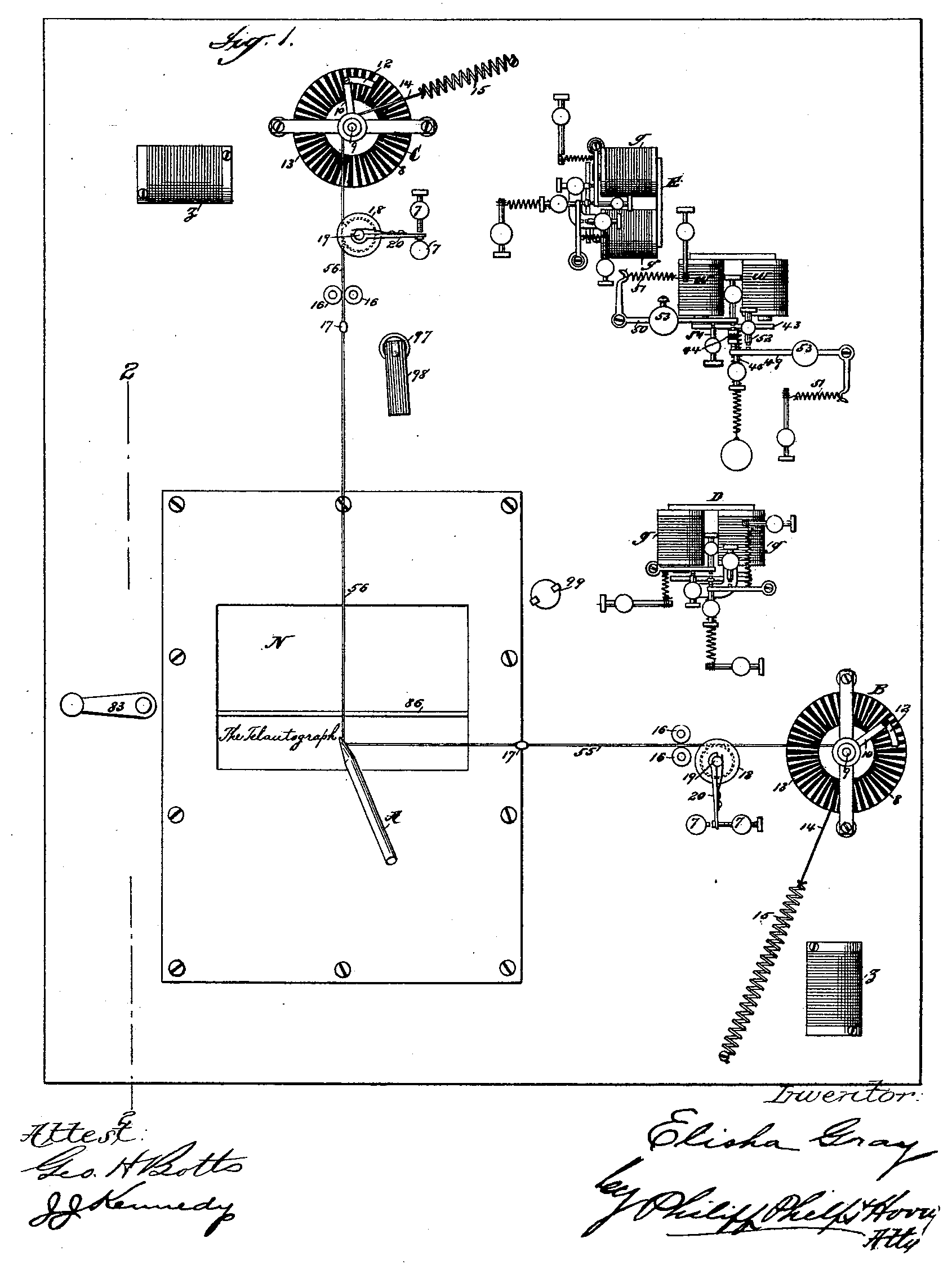 Main schema of the 1888 telautograph